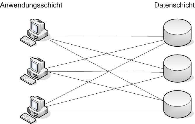 Example of a 2-tier architecture